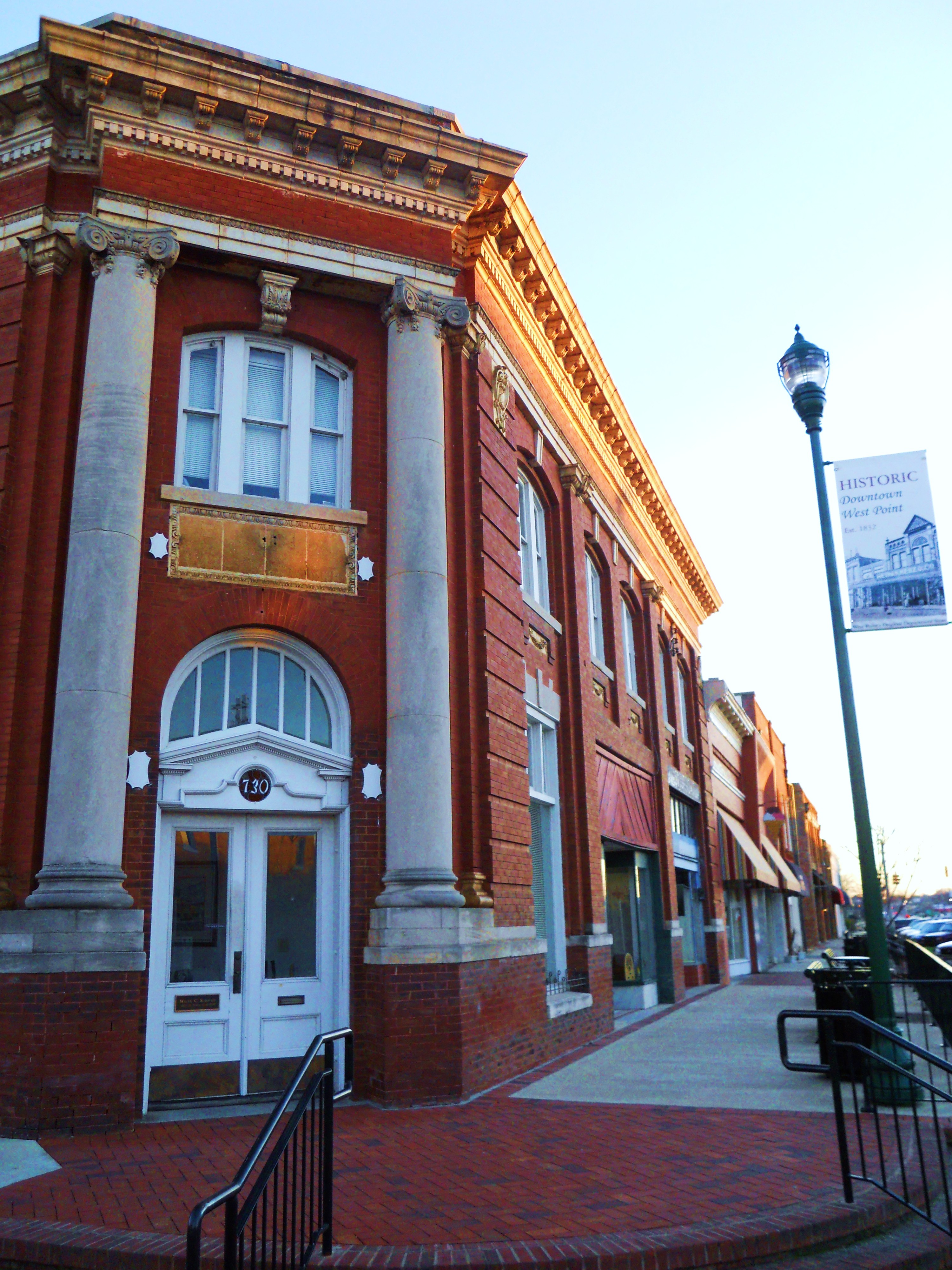 This is a photo of downtown West Point, Georgia.